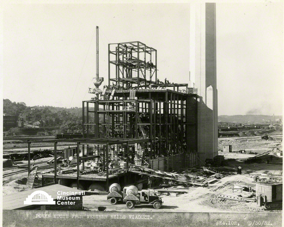 Part of Cincinnati Union Terminal, photo first published in "The Cincinnati Union Terminal: Pictoral History".